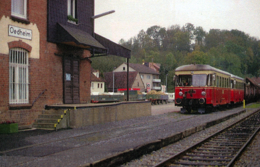 Sugar beet campaign 1992 along the lower Kocher valley railroad in Oedheim